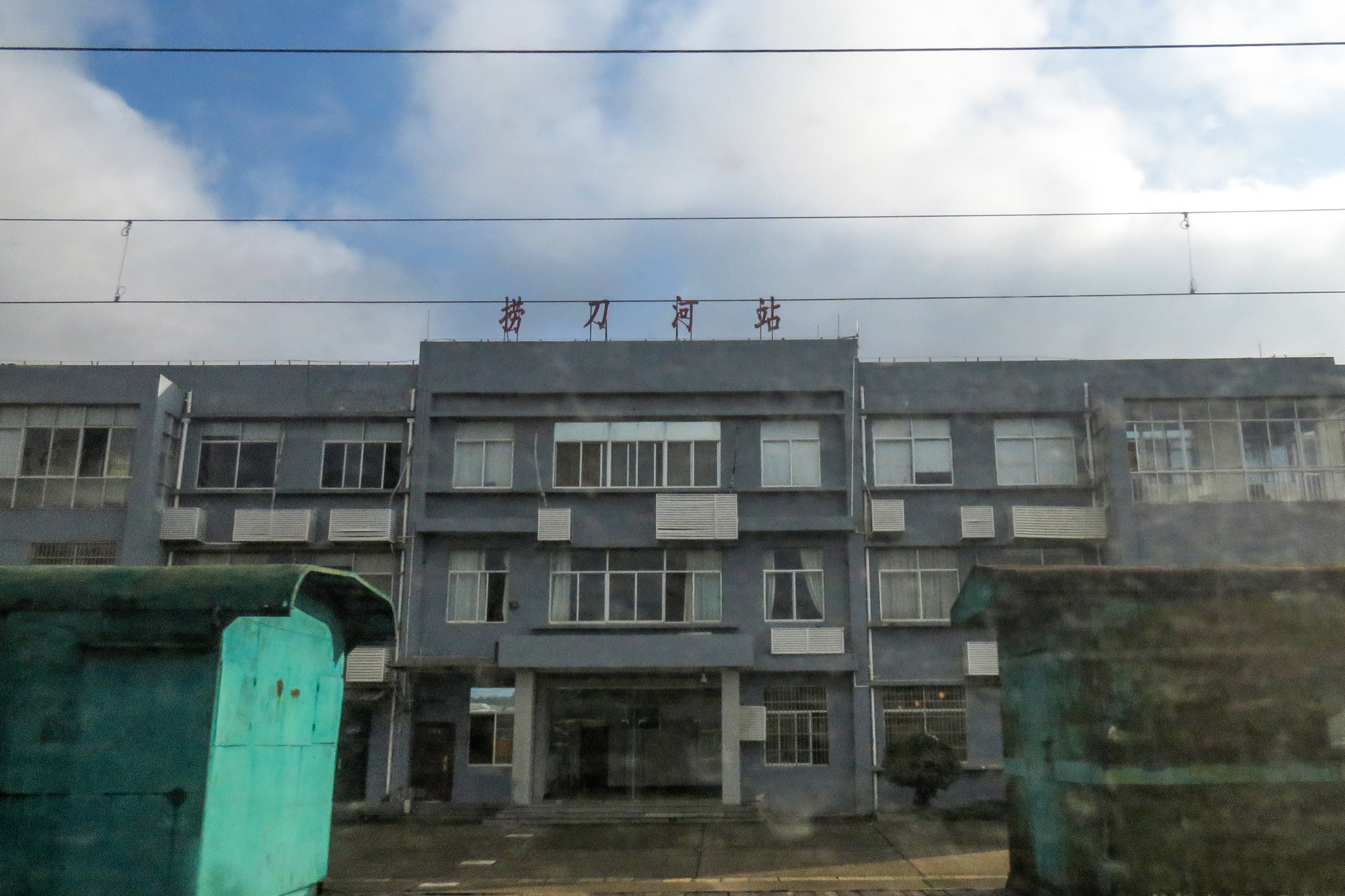 Rather small markings.